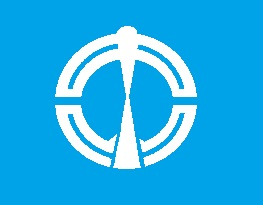 Flag of Nakayama Yamagata